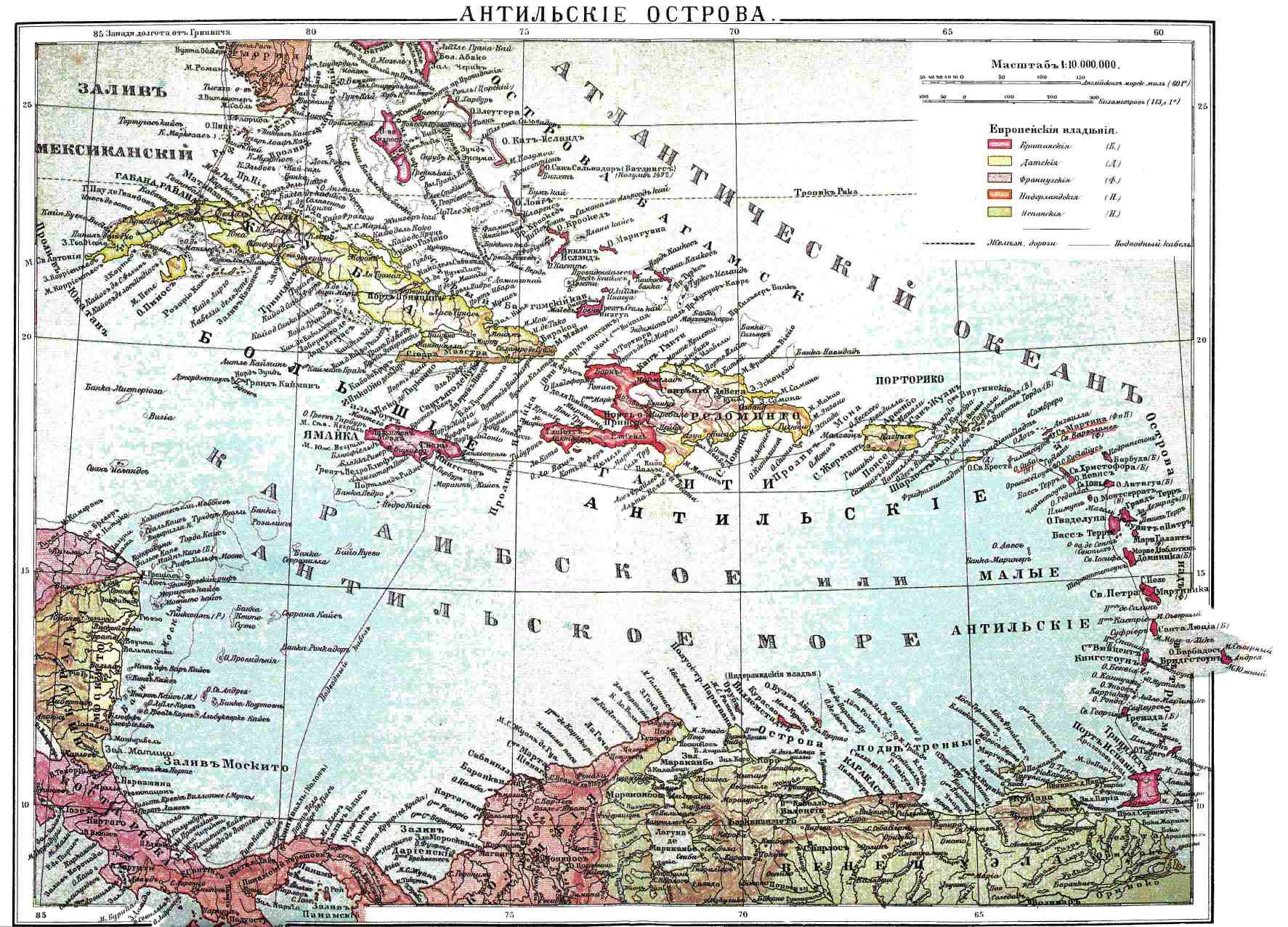 Antilles. Map from the Brockhaus and Efron Encyclopedic Dictionary, 1890-1907